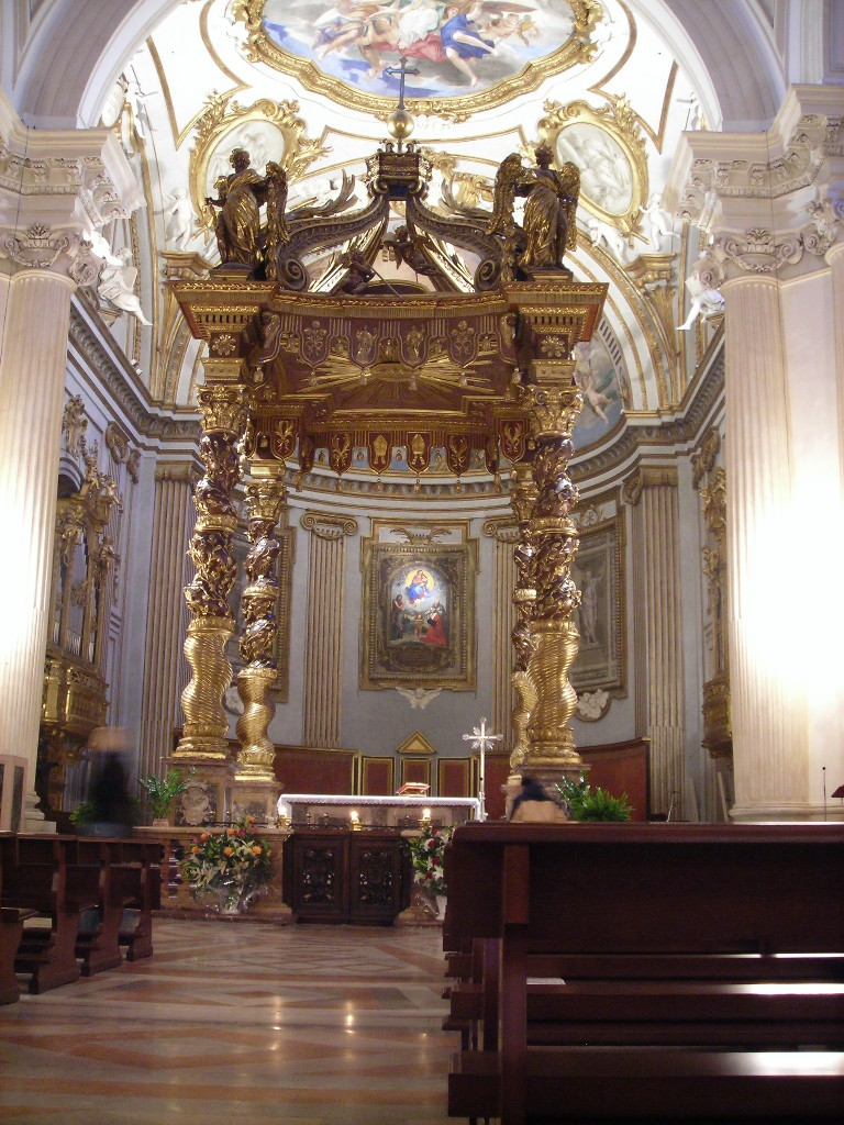 baldacchino of the cathedral of San Feliciano di Foligno, Perugia, Umbria, Italy